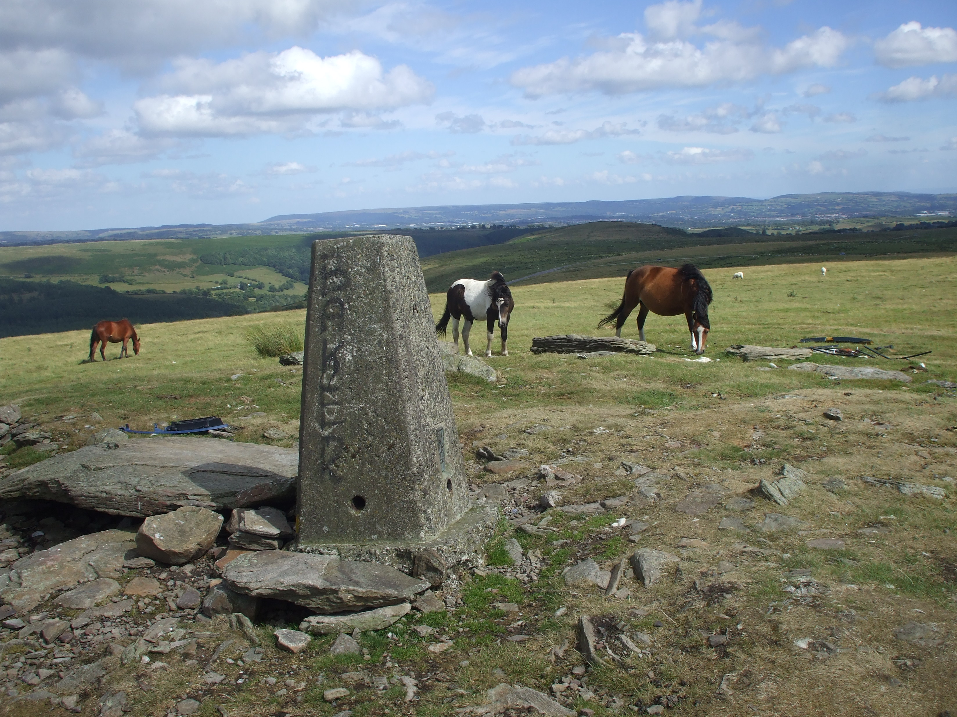 Carn Bugail and trig point, Pen Garnbugail